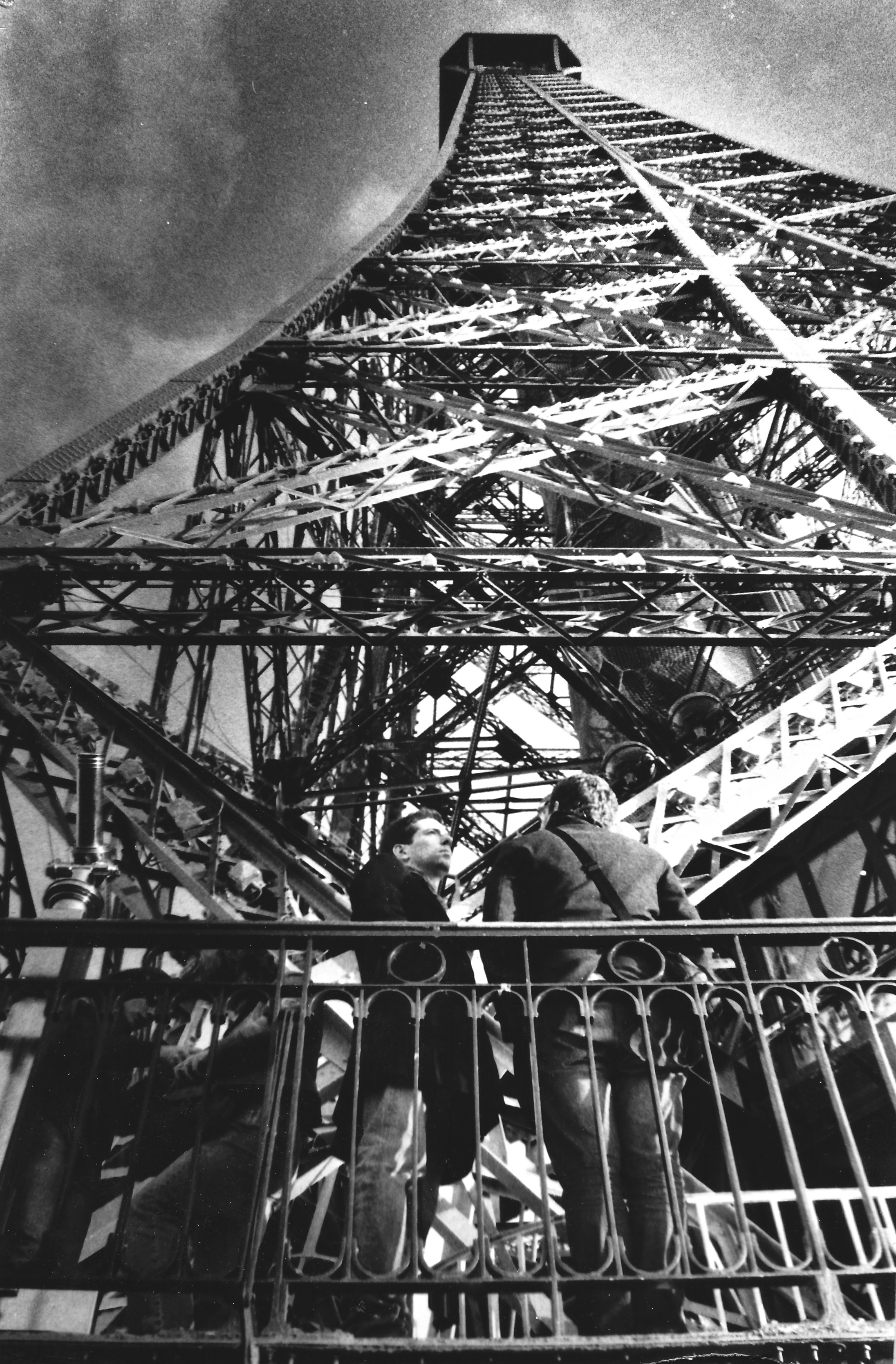 Eiffel Tower taken from mid-hight (2nd floor) in monochrome